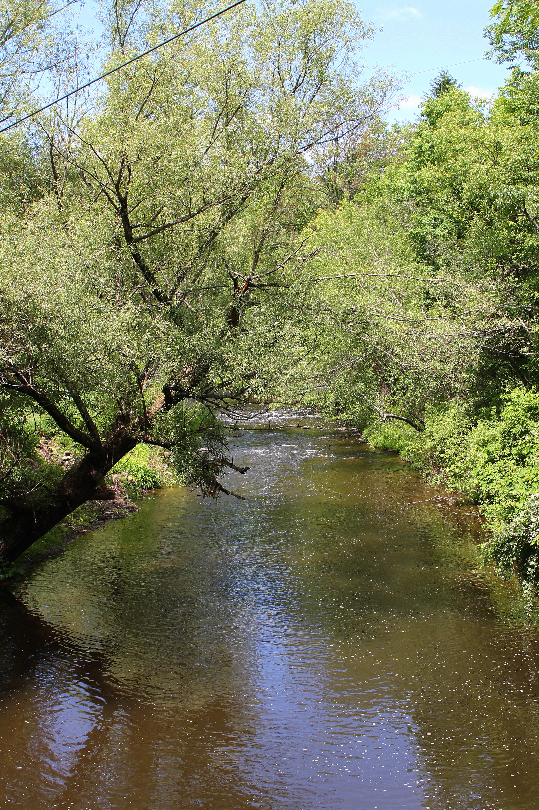 Big Wapwallopen Creek looking downstream in June 2015 in its lower reaches